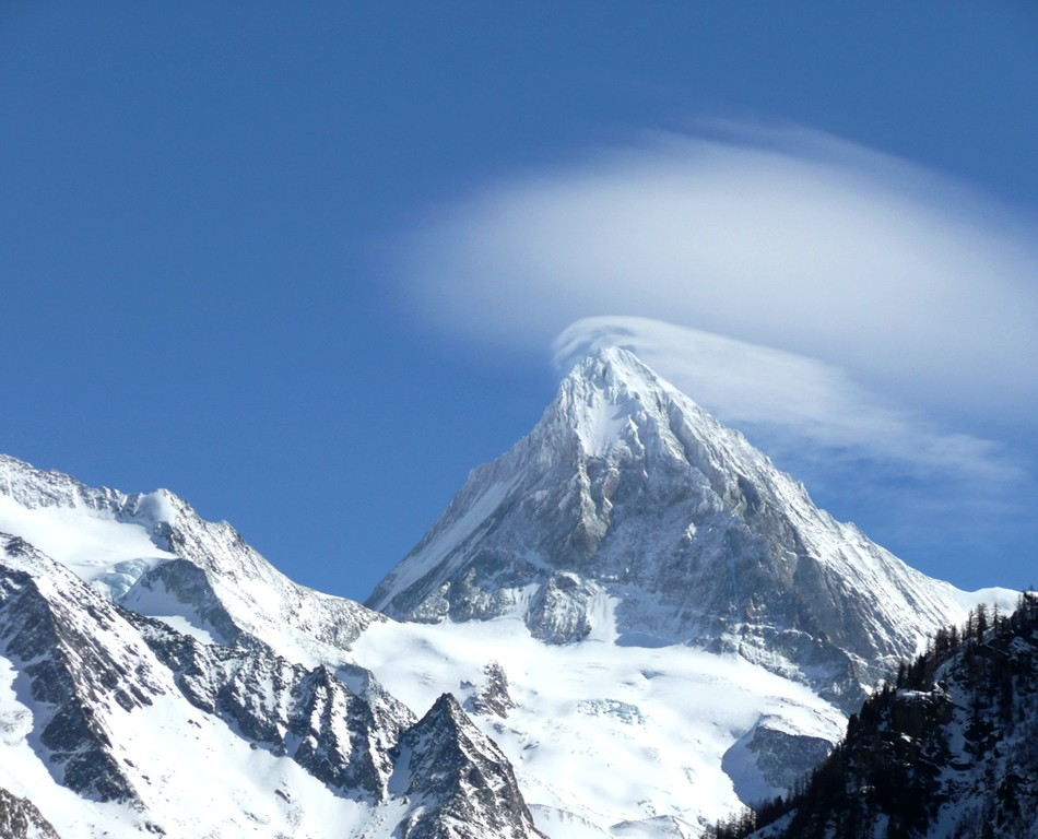 Dent Blanche, Valais alps